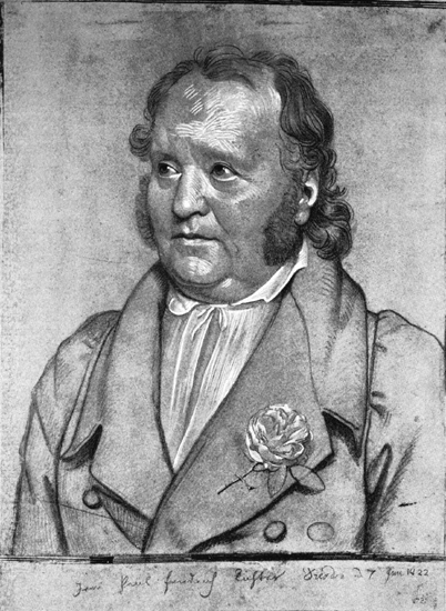 Portrait of Jean Paul, 1822